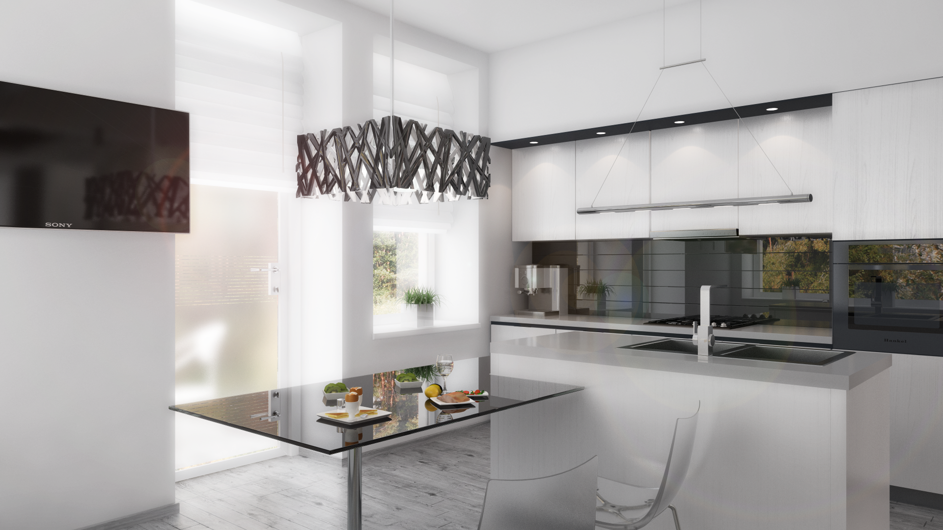 Interior of kitchen in minimalism style (C) Yarbis